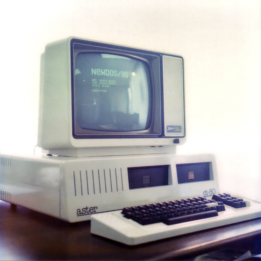 Aster CT-80 oldest model from different angle